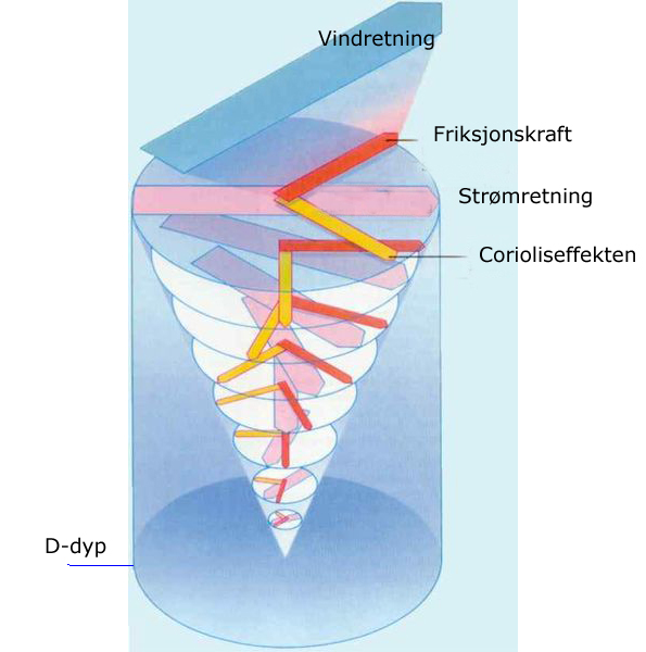 Ekman Spiral. Norwegian text.